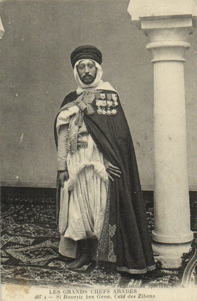 Si Bouaziz Ben Gana Caid of Zibans, Algeria